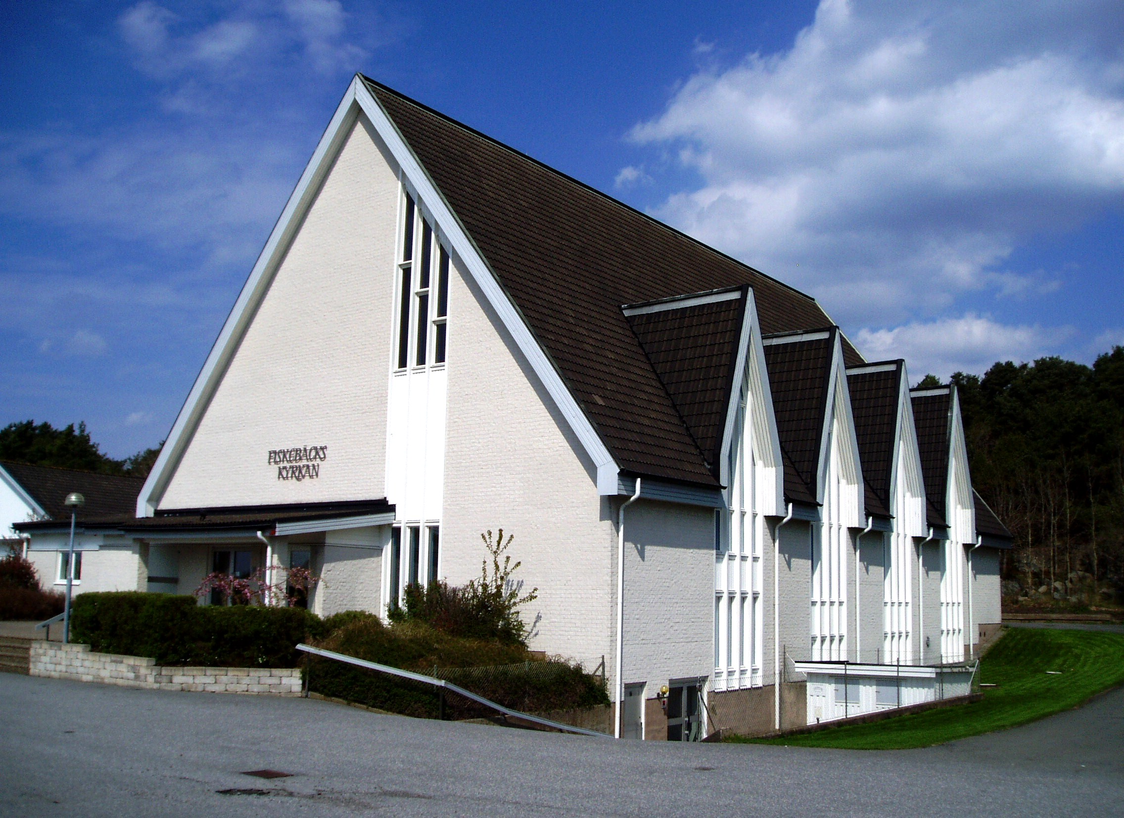 Fiskebäckskyrkan, church in Gothenburg, Sweden